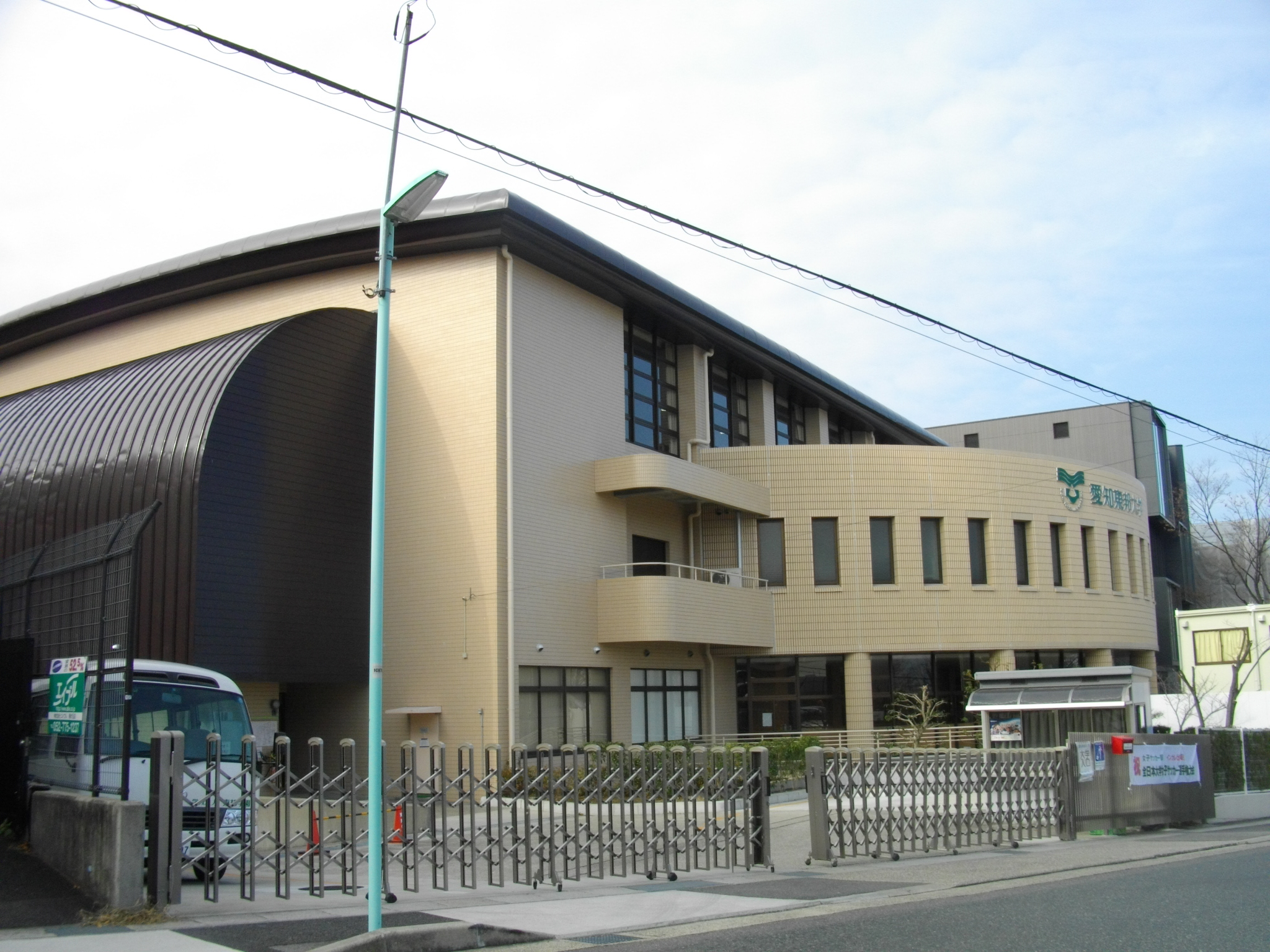 Aichi Toho University